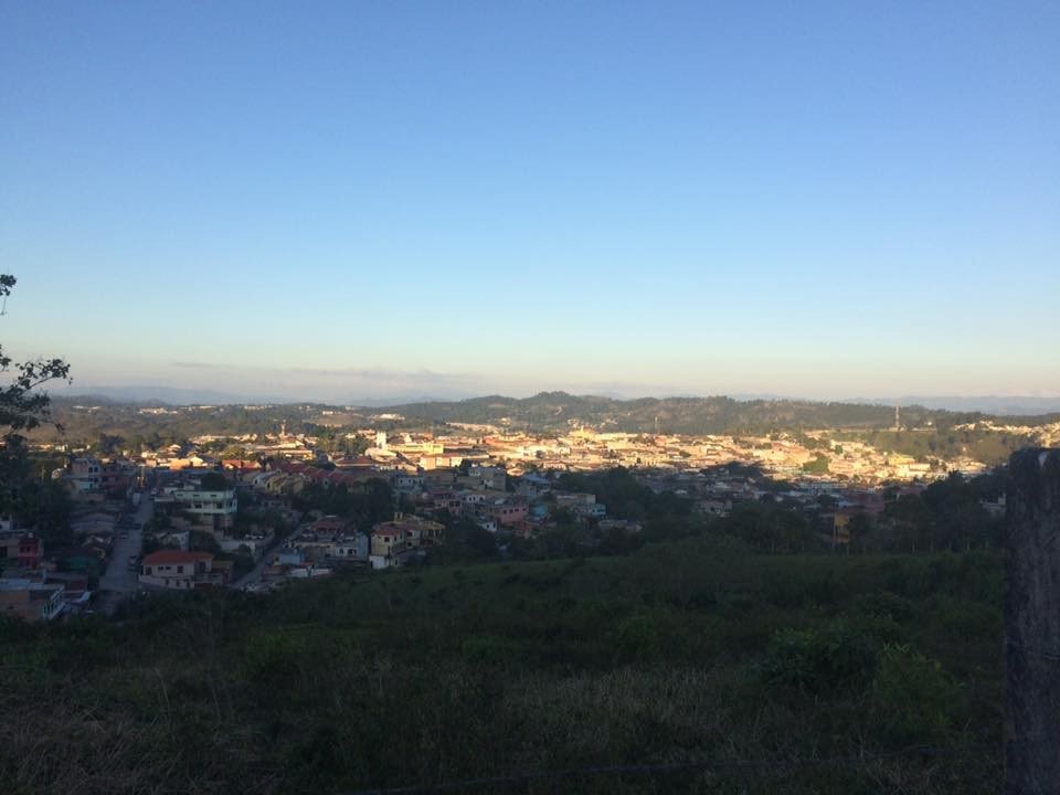 Santa Rosa de Coán view.